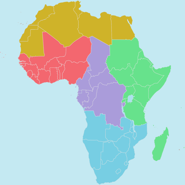 Regions of the African Union North Southern East West Central